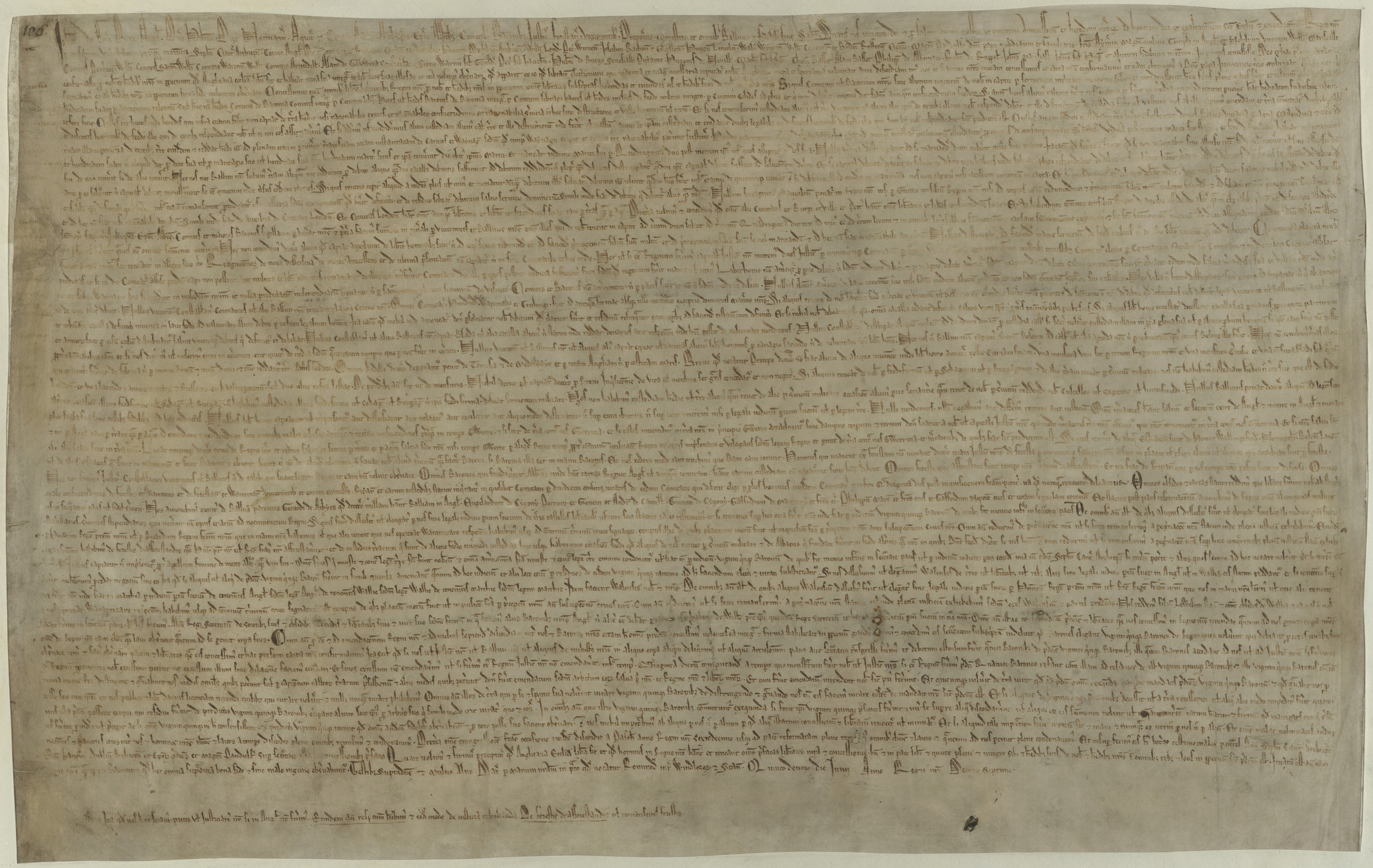 The Magna Carta [Whole document] Magna Carta. The Great Charter of English liberties, first issued by King John at Runnymede on 15 June 1215. This document is one of the four surviving exemplifications